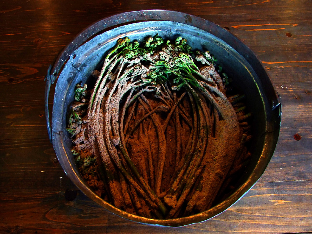 Pteridium aquilinum is arranged to the cast iron pot, and the wood ash is sprinkled. The hot water is poured into the pan and it puts it all day and all night. It comes off the harshness from Pteridium aquilinum, and this work is done.